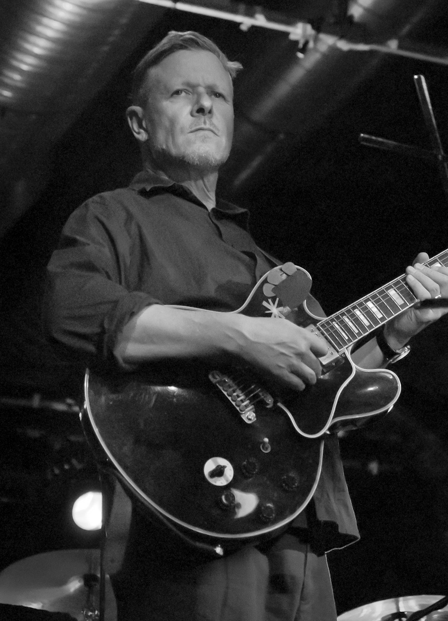 Swans at the Arches, Glasgow on Monday 25 October 2010.